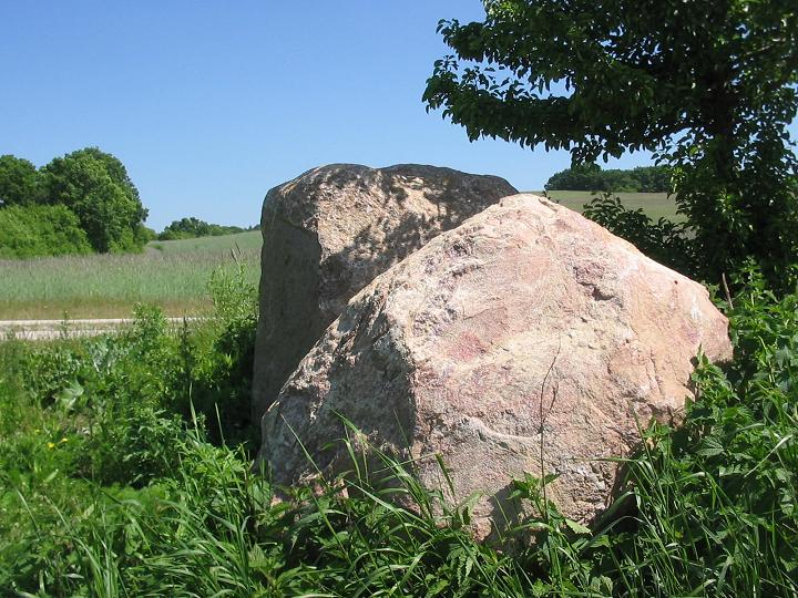 Glacial erratic (terminal moraine Chorin) nearby the peninsula Pehlitzwerder, Parsteiner See. The Parsteiner See is a finger lake (proglacial lake) in Germany, Brandenburg, District Barnim, and covers 10,03 km²